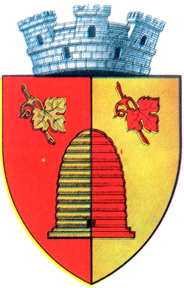 Interwar coat of arms of Târgu Frumos, Iași County, Kingdom of Romania.